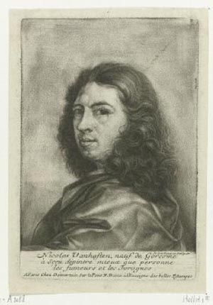 Selfportret of Nicolaes van Haeften (1663 - 1715)